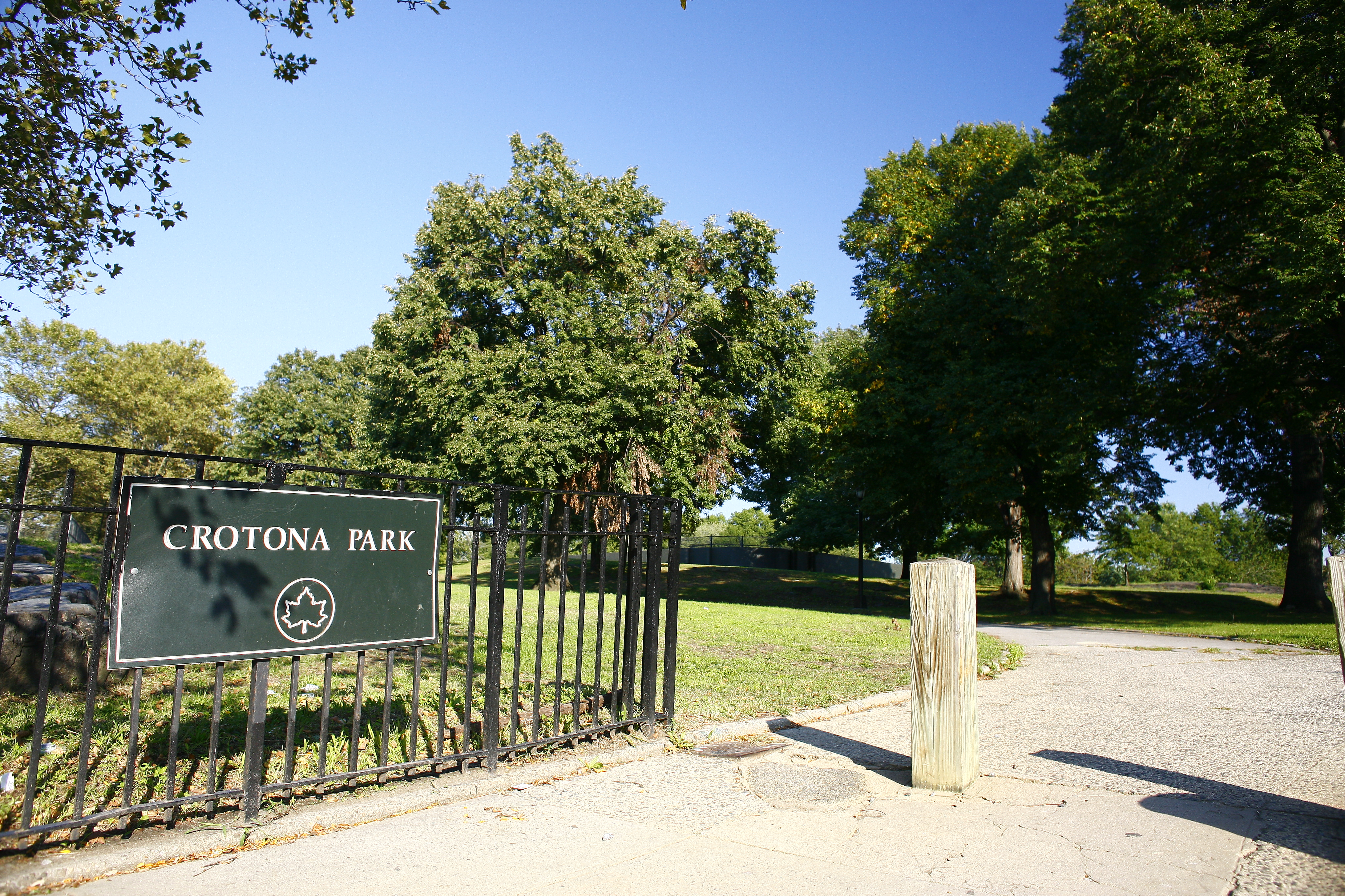 This photo is of Wikis Take Manhattan goal code N4, Crotona Park.